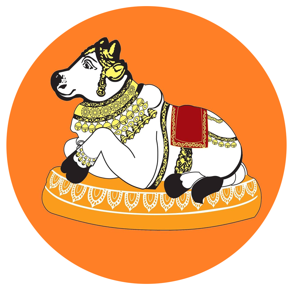 Flag of Nandi or Holy bull, is the official flag of Hindu Saivism all over the world.